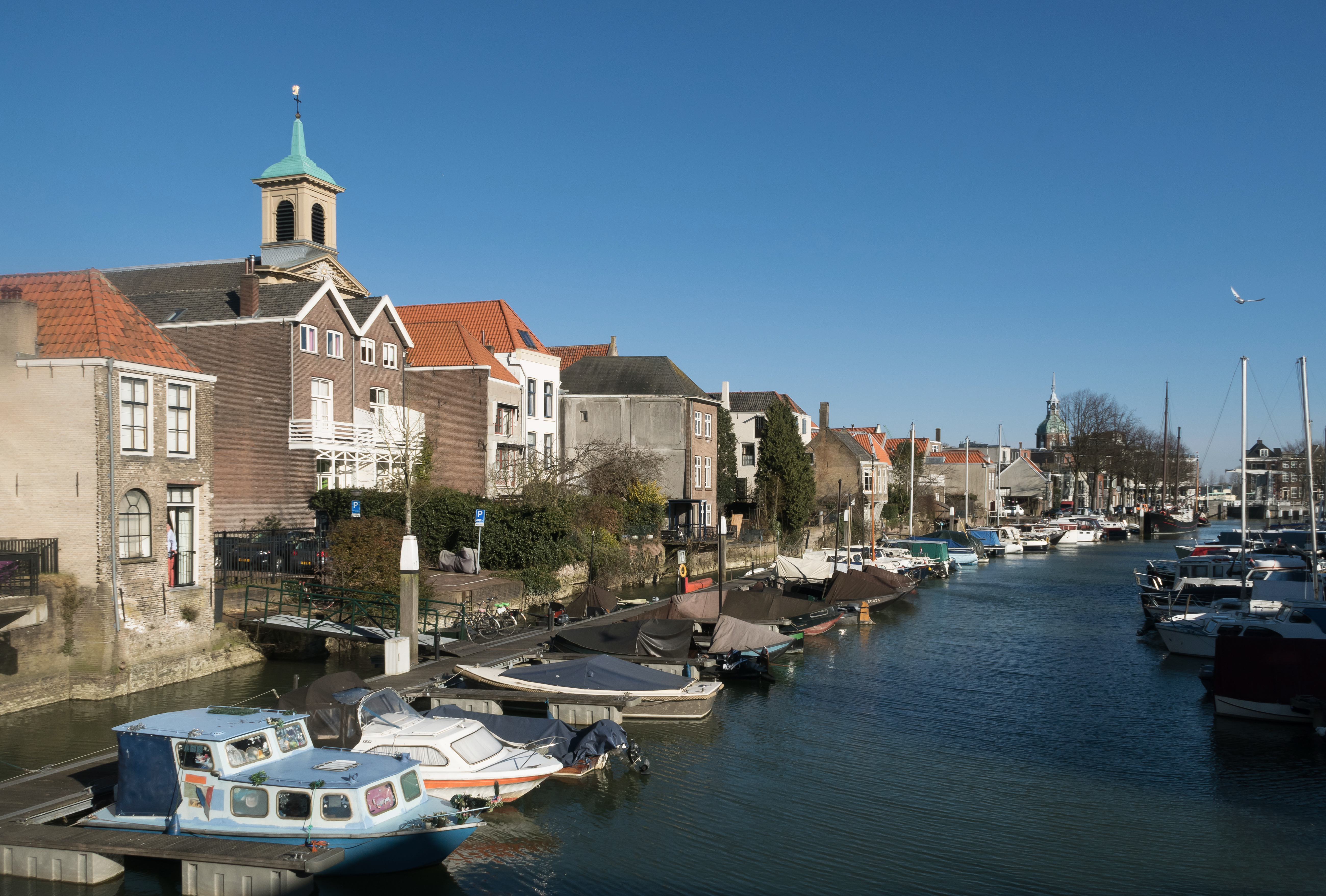 Dordrecht, view to the Wijnhaven from the Nieuwbrug (left churchtower Bonifatiuskerk)